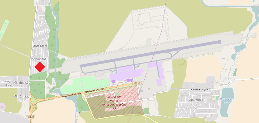 Turkish Airlines Bishkek plane crash location